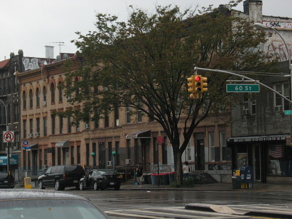 The southwestern corner of 4th avenue and 60th street, in Sunset Park, Brooklyn